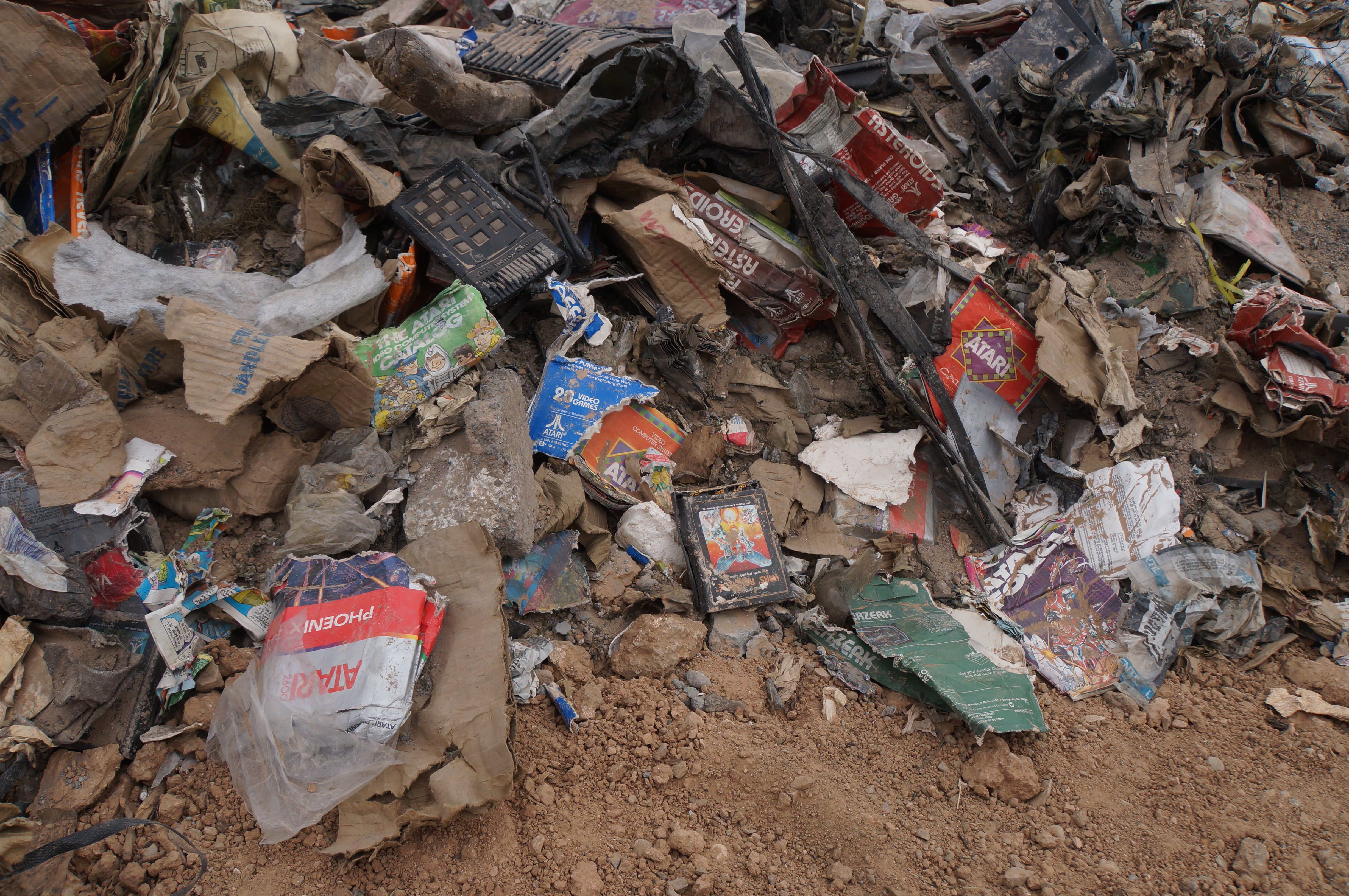 What Atari buried, beyond E.T.